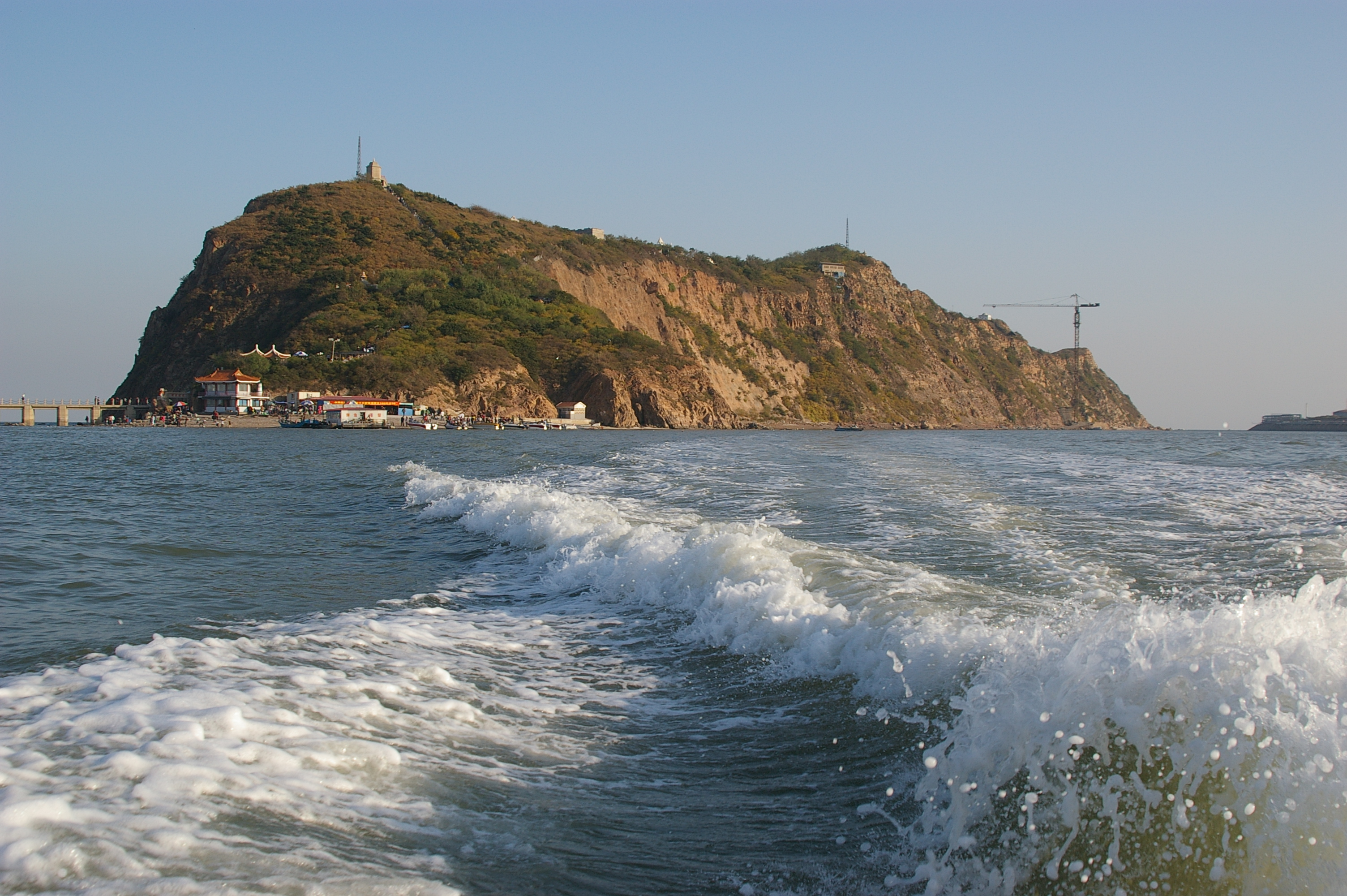 This is a photo of Bijia Mountain at high tide, near Jinzhou City in Liaoning, China. At low tide, a land-bridge appears between the mainland and the mountain, allowing visitors to walk from one shore to the other. (This Jinzhou is near the northern tip of Liaoning Bay; not ot be confused with Jinzhou District of Dalian city, on Jinzhou Bay, about 200 km to the south